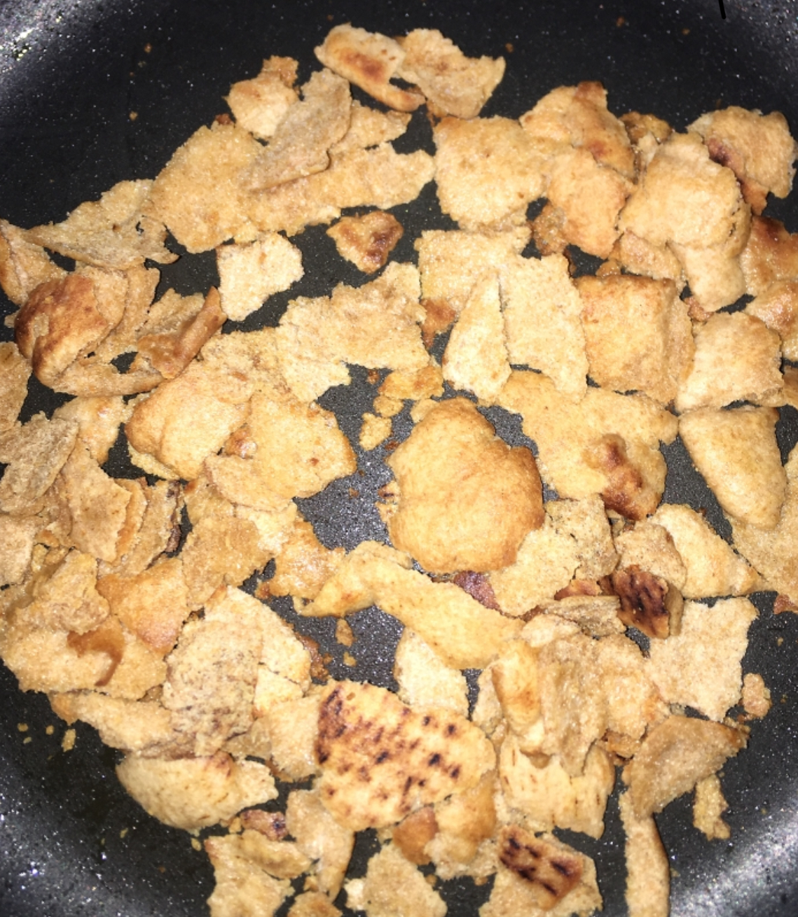 A photo of the Yemenite-Jewish Israeli dish Fatoot Samneh.